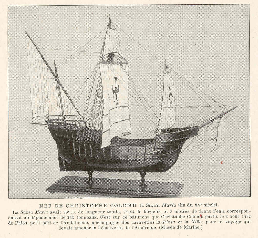 La Santa Maria avait 29m,10 de longueur totale, 7m,84 de largeur, et 3 metres de tirant d'eau, correspondant a un deplacement de 233 tonneaux. C'est sur ce batiment que Christophe Colomb partit le 3 aout 1492 de Palos, petit port de l'Andalousie, accompagne des caravelles la Pinta et la Nina, pour le voyage qui devait amenir la decouverte de l'Amerique (Musee de Marine Subject: Santa Maria (Ship), Sailing ships Tag: Vessels